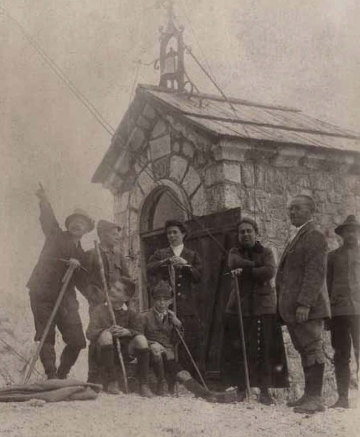 Aljaž Chapel of Our Lady of the Snow (build in 1896, demolished in 1952)